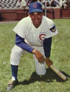 Professional baseball player Billy Williams